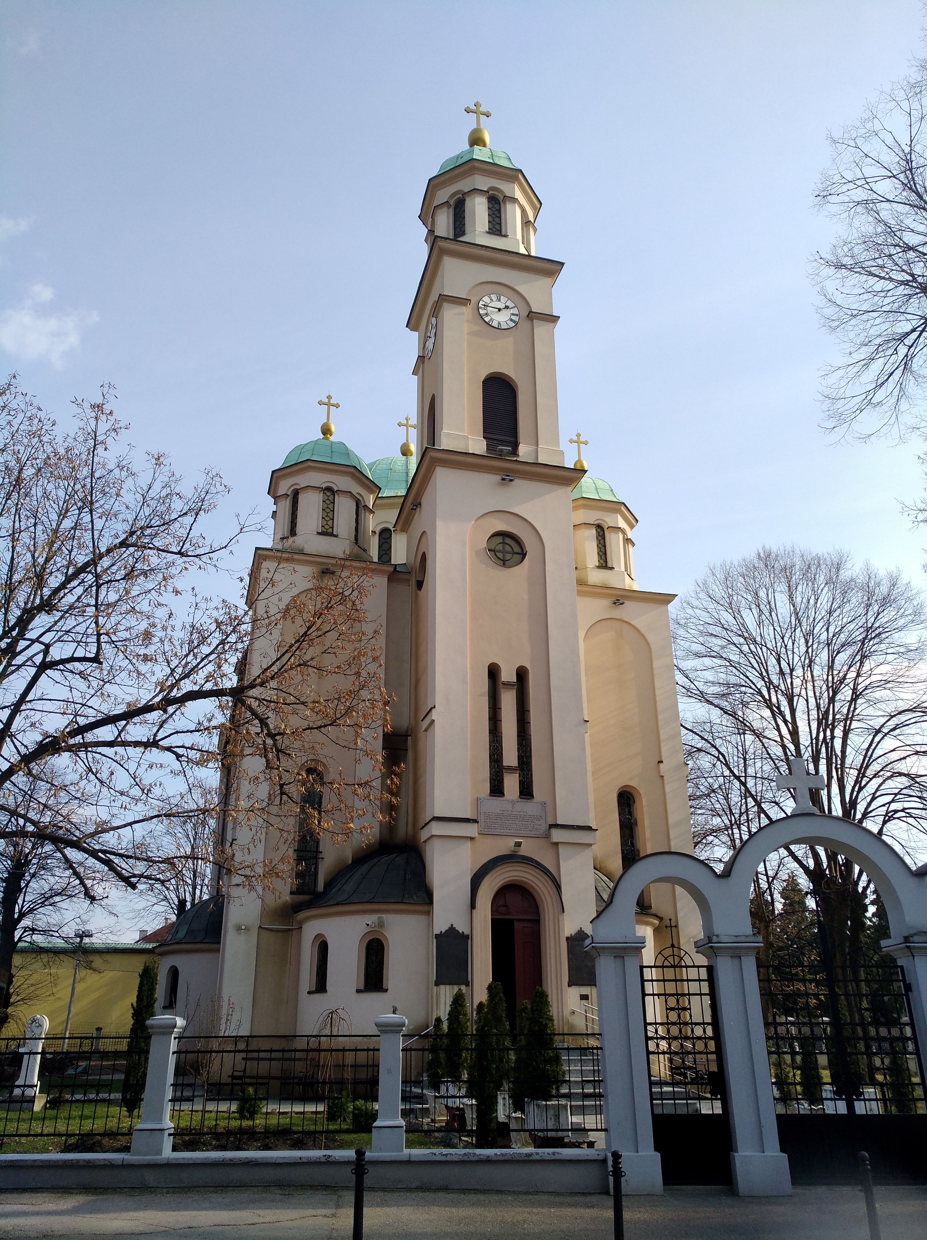 Cathedral of the Dormition of the Mother of God, Tuzla, Bosnia and Herzegovina.